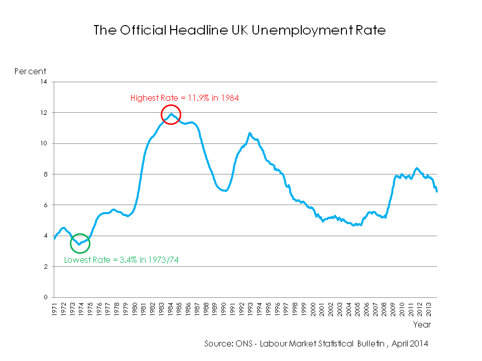 This shows the UK unemployment rate from 1971 to 2014